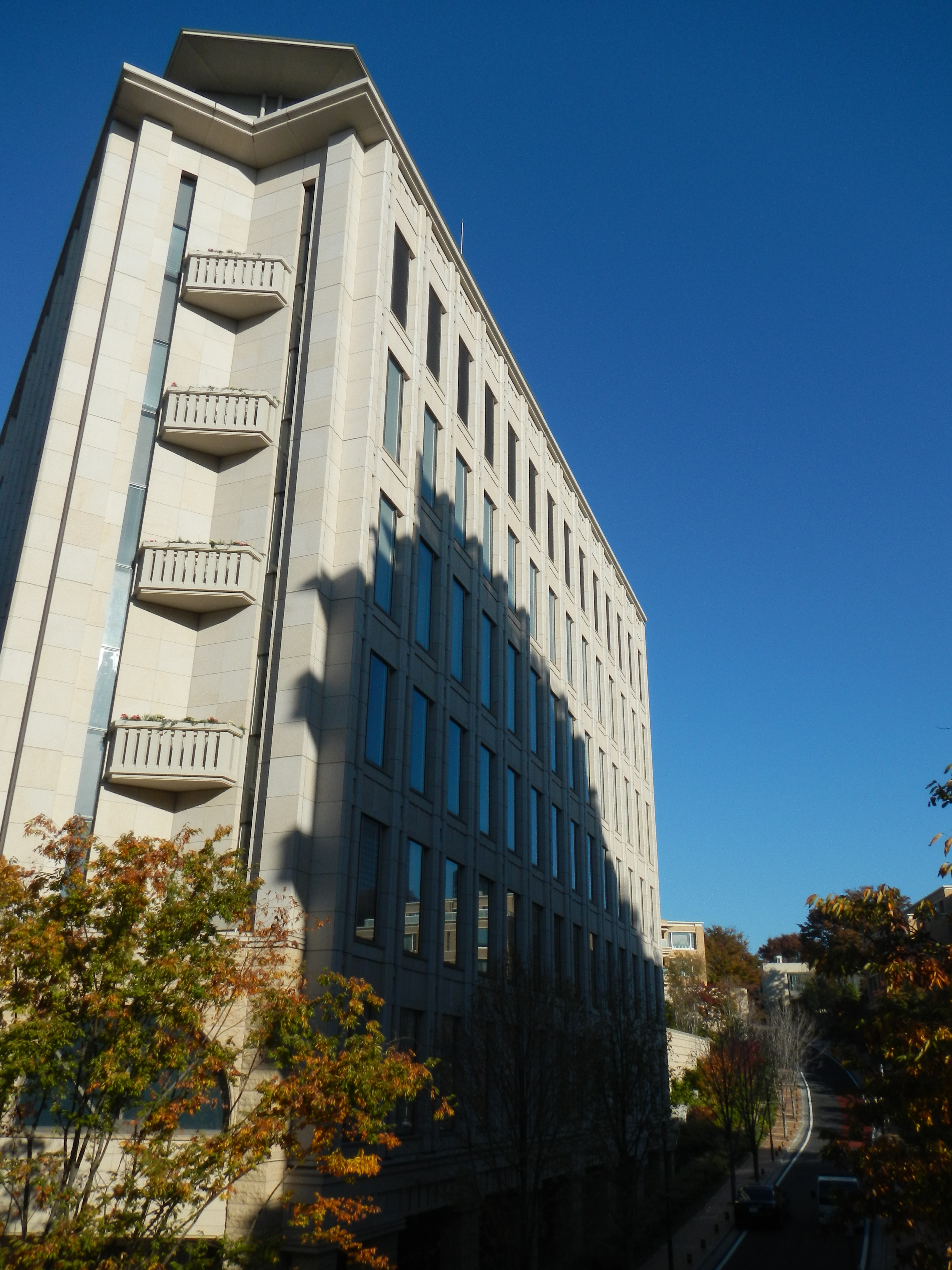 GDC Goten-yama, a datacenter of TIC, Inc. at Shinagawa, Tokyo.